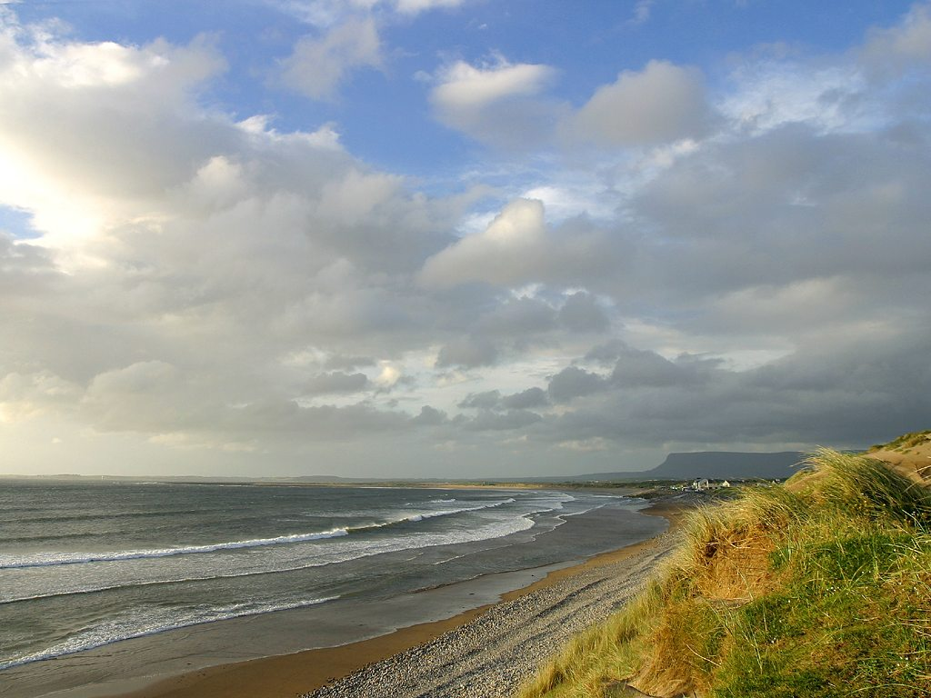 Strandhill, Ireland Downloaded from